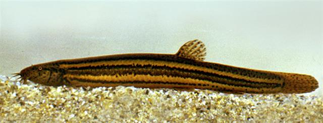 Misgurnus fossilis photographed in Tiszafüred, river Tisza, Hungary.